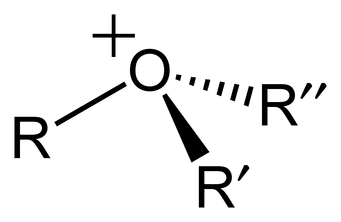 General structure of a pyramidal oxonium ion